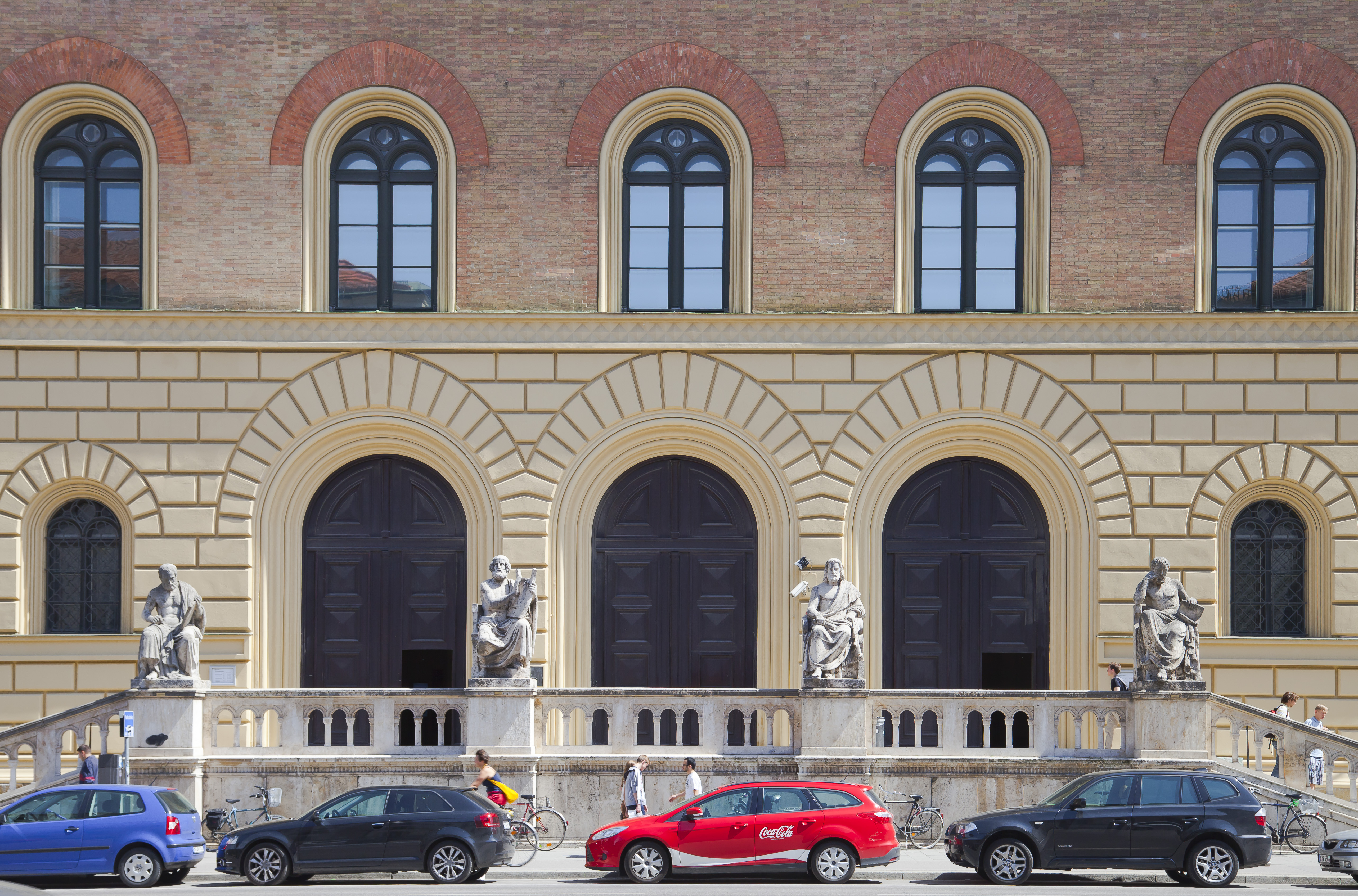 Bavarian State Library, Munich, Germany